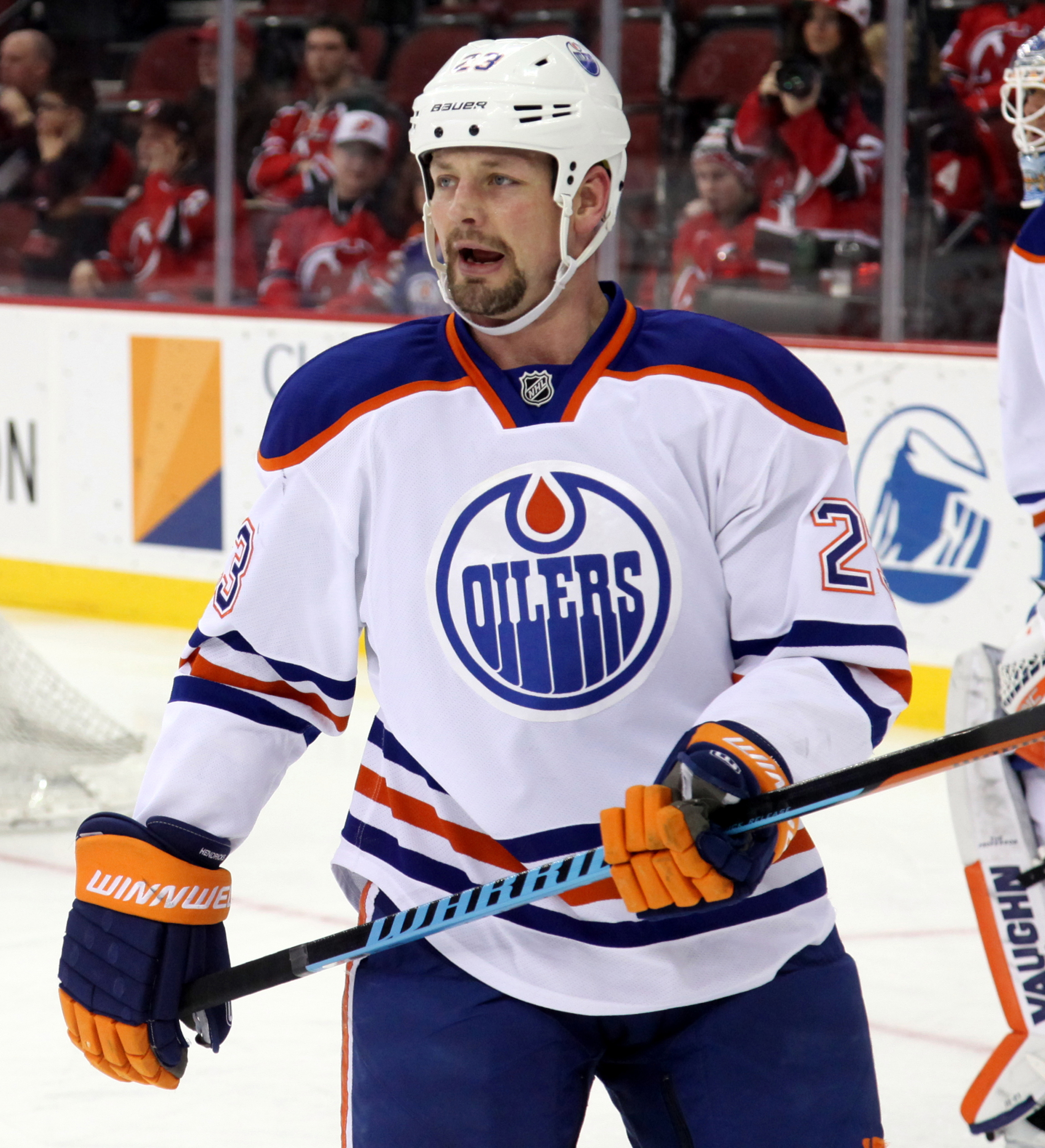 Henricks in February 2015.